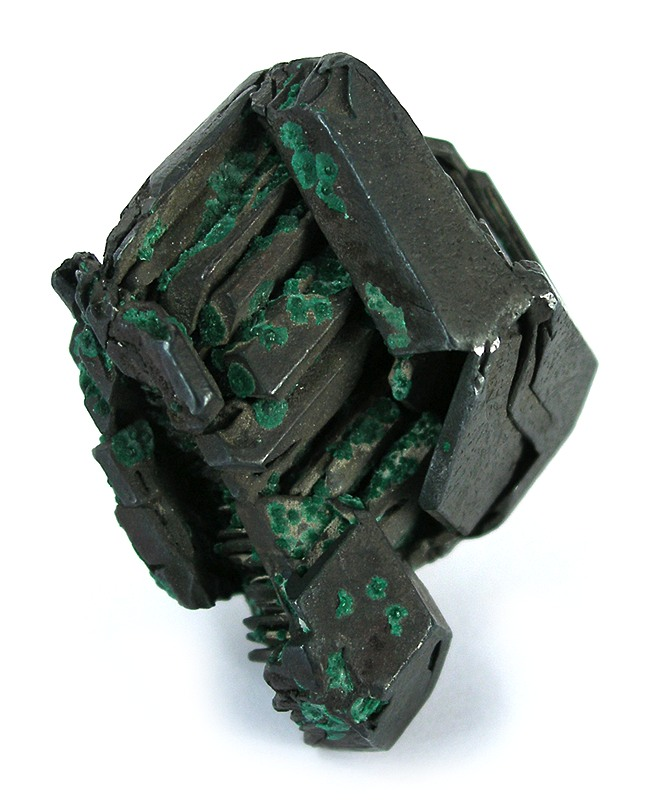 Jalpaite Locality: Jalpa, Municipio de Jalpa, Zacatecas, Mexico (Locality at ) Size: miniature, 3.6 x 3.5 x 3.2 cm Jalpaite Jalpaite is a very rare species, and only a few large crystals are known to exist. This specimen, believed to have been found around the turn of the 1900s, is huge for the species. And, it is quite attractive. This crystal is pronounced to be the best of species, by those who have studied Mexican mineralogy far more than I. It comes from the type locality, and was passed down through several hands to Dr. Romero for his collection. This specimen from the Dr Miguel Romero collection was on loan exhibition to the University of Arizona Museum for over a decade, until my purchase of this collection in 2008. It was on display in special cases at the museum, and has since been featured in the book "The Miguel Romero Collection of Mexico Minerals" which we sponsored as a special supplement book (published by the Mineralogical Record in December of 2008).